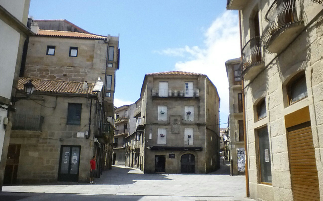 Old town in Pontevedra capital